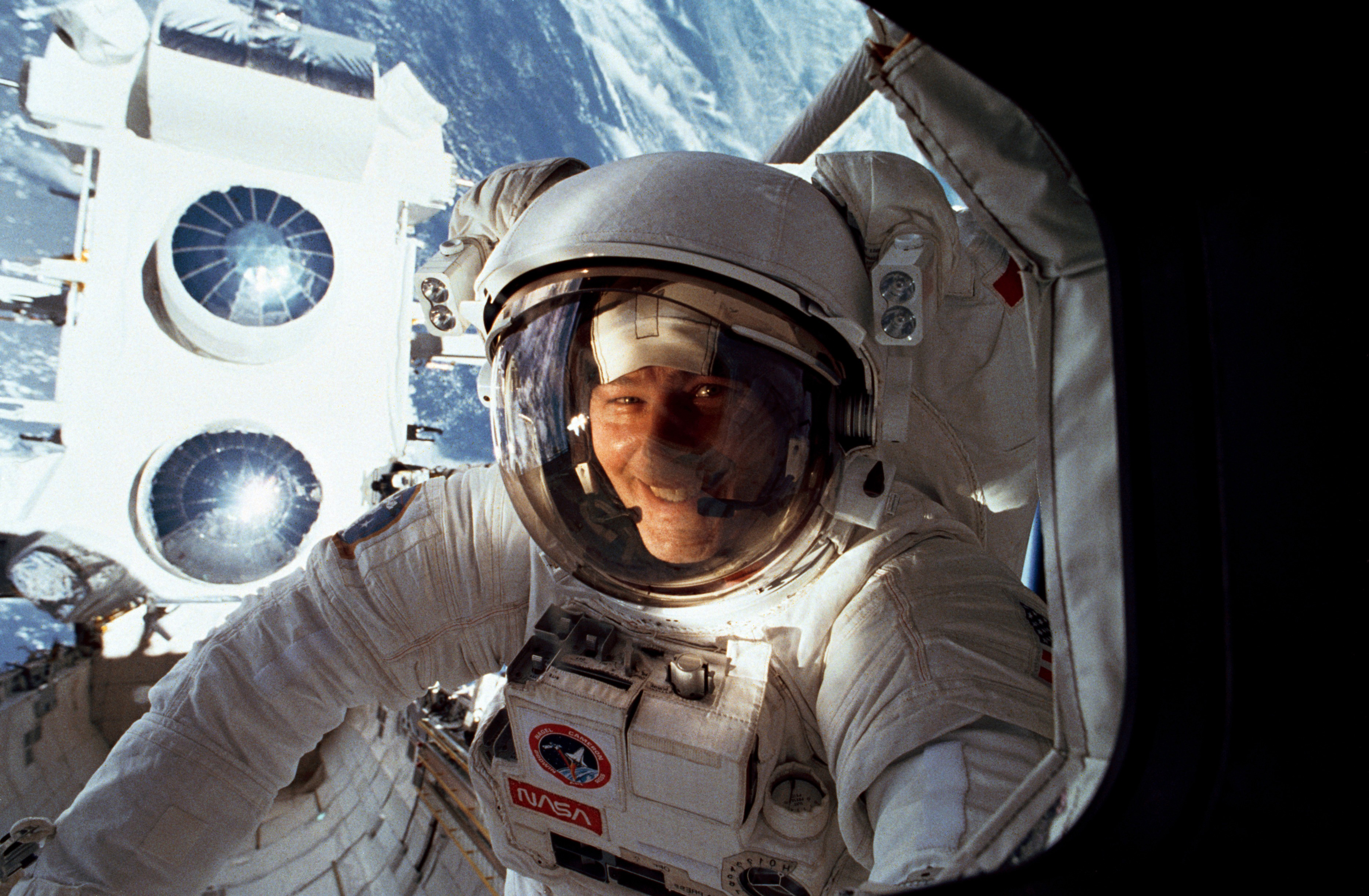 Jerry Ross during the first EVA on STS-37 - STS-37 Mission Specialist (MS) Jerry L. Ross, suited in extravehicular mobility unit (EMU), peers into Atlantis', Orbiter Vehicle (OV) 104's, aft flight deck viewing window while performing emergency extravehicular activity (EVA) procedures in the payload bay (PLB). The unscheduled EVA was necessary to manually extend the Gamma Ray Observatory's (GRO's) high gain antenna (HGA). The GRO grappled by the remote manipulator system (RMS) end effector and held above the PLB is visible in the background. The entire scene is backdropped against the blue and white surface of the Earth.